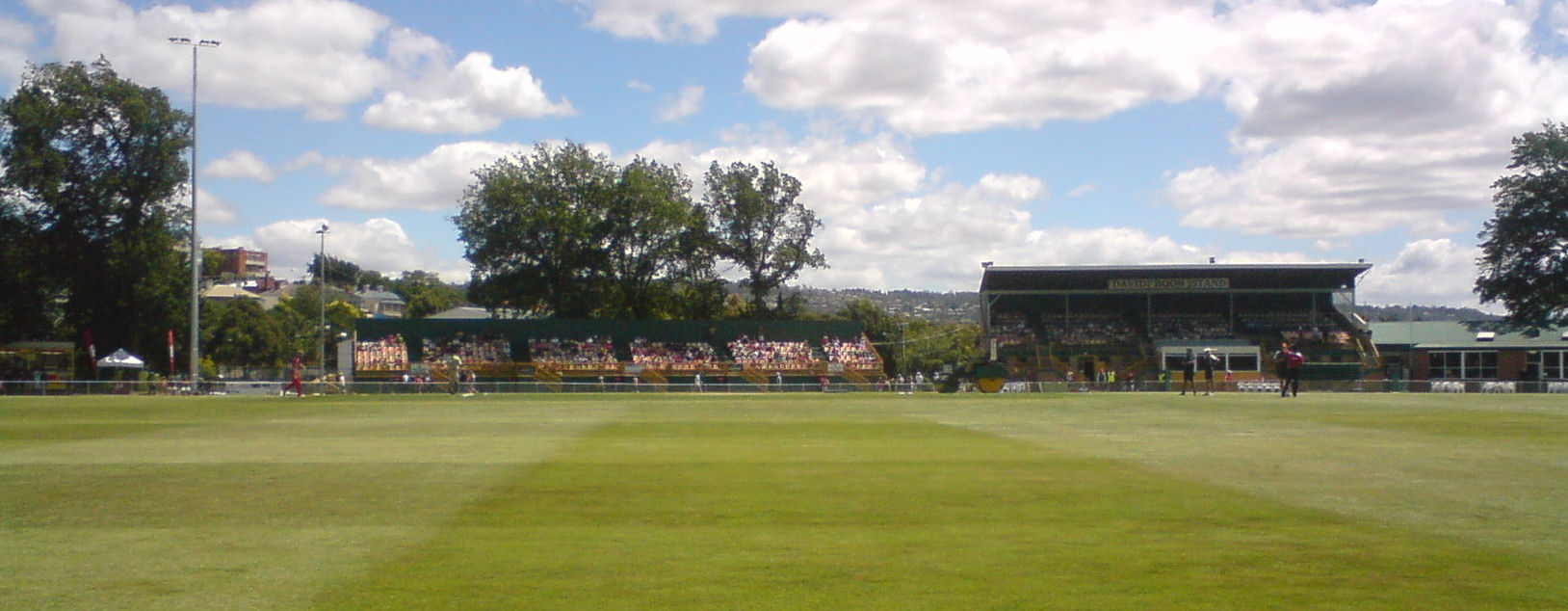 Before Tasmania V South Australia 2020 match